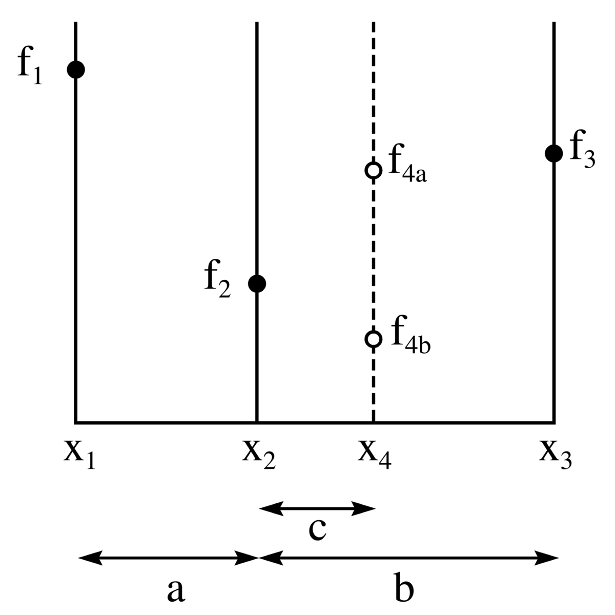 Diagram illustrating the golden section search algorithm.